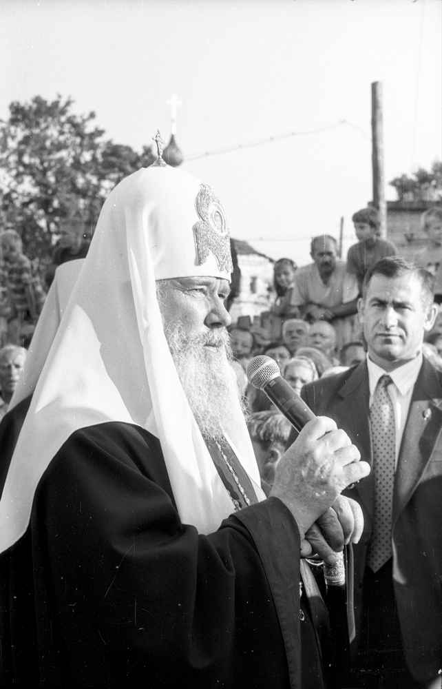 Russian patriarch Alexy II visited Nikolsky monastery in Pereslavl. He made a salutatory speech to the citizens of Pereslavl.